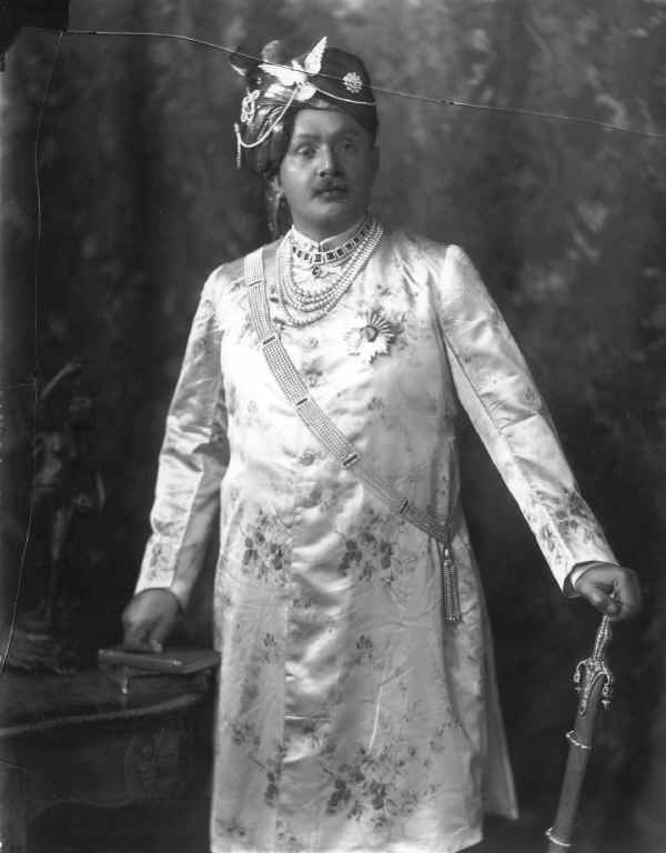 Ranjitsinhji, celebrated cricketer and Maharaja of Nawanagar, who died in 1933.